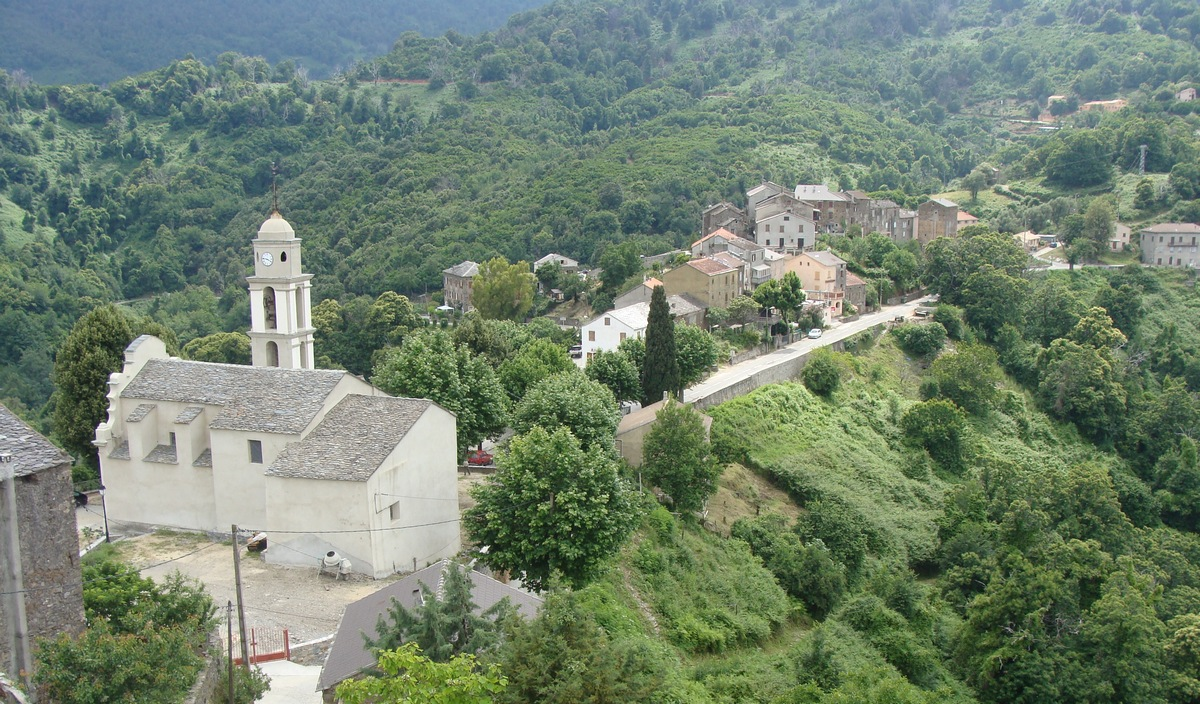 The village of Chiatra, in Haute-Corse